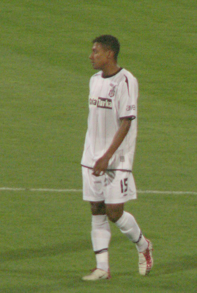 A photo of Jose Kleberson from a Besiktas match.